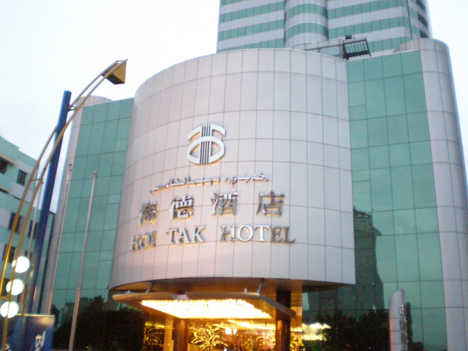 Hoi Tak Hotel, Dongfeng Road,in Urumqi